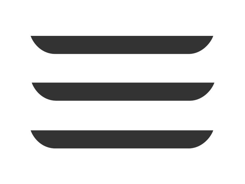 Tesla Model 3 logo - "III" on its side; same as the "E" is TESLA; also sylized Arabic numeral "3"